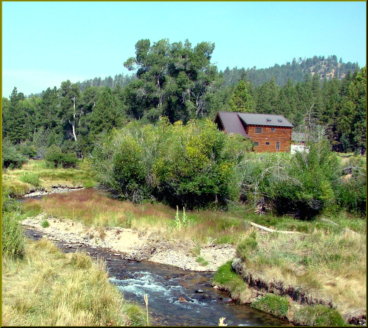 (1 in a mutlitple picture set) Coming down from Cedar Breaks, we drove through varied landsacpes. In one place there were huge piles of volcanic rock. Then a bit lower, closer to Panquitch Lake, we found pretty Mammoth Creek passing under a bridge.